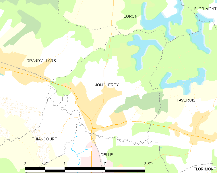 Map of French municipality Joncherey